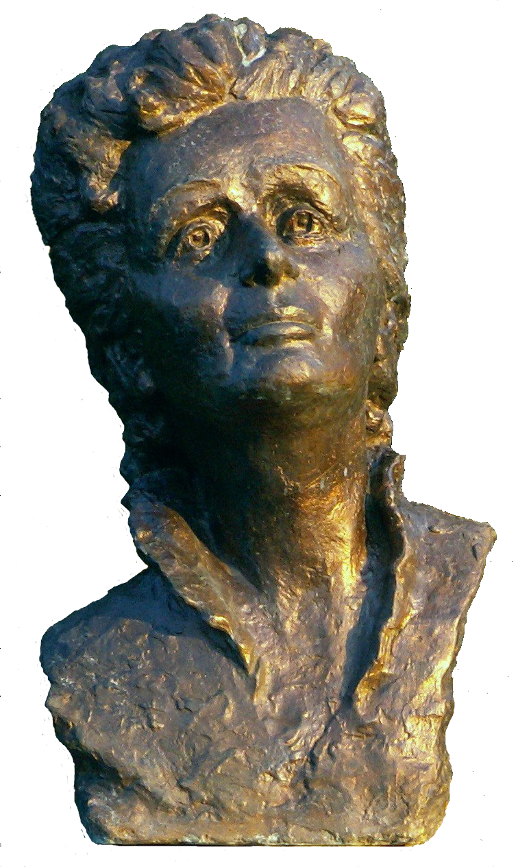 Bust of Edith Piaf in Celebrity Alley in Kielce (Poland)